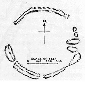 Map of earthworks at Elworthy Barrows, Exmoor, Somerset, England.